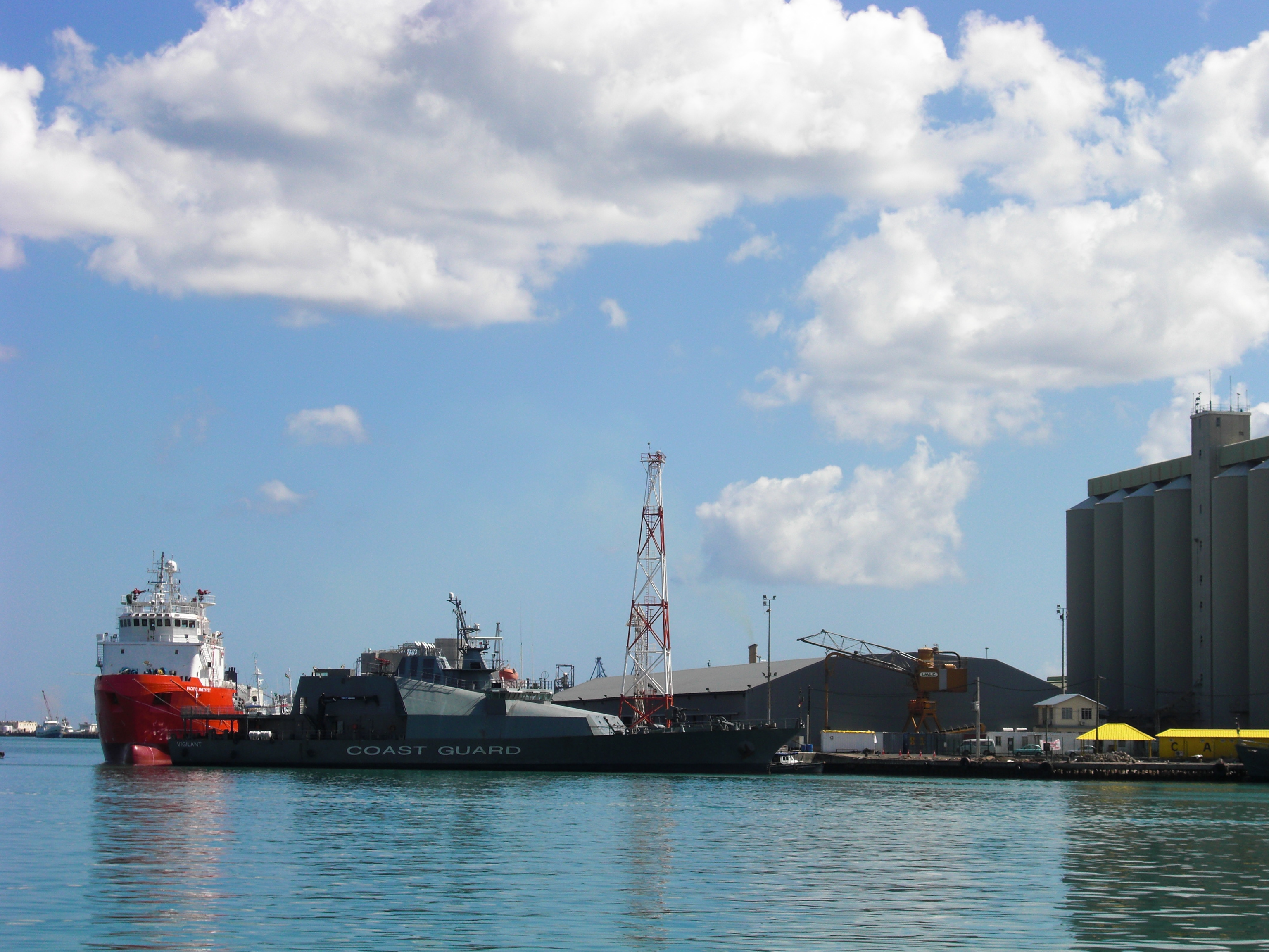 MCGS Vigilant, the flagship of the Coast Guard of Mauritius, berthed in the harbour of Port Louis.